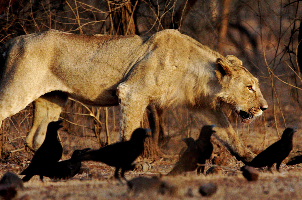 A female Asiatic Lion in Kachchh, Gujerat, India.